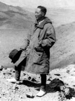 Liu Shengqi 1944 in Lhasa